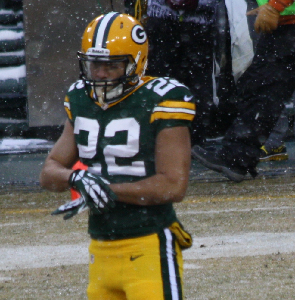 Green Bay Packers player Kahlil Bell warming up against the Pittsburgh Steelers.